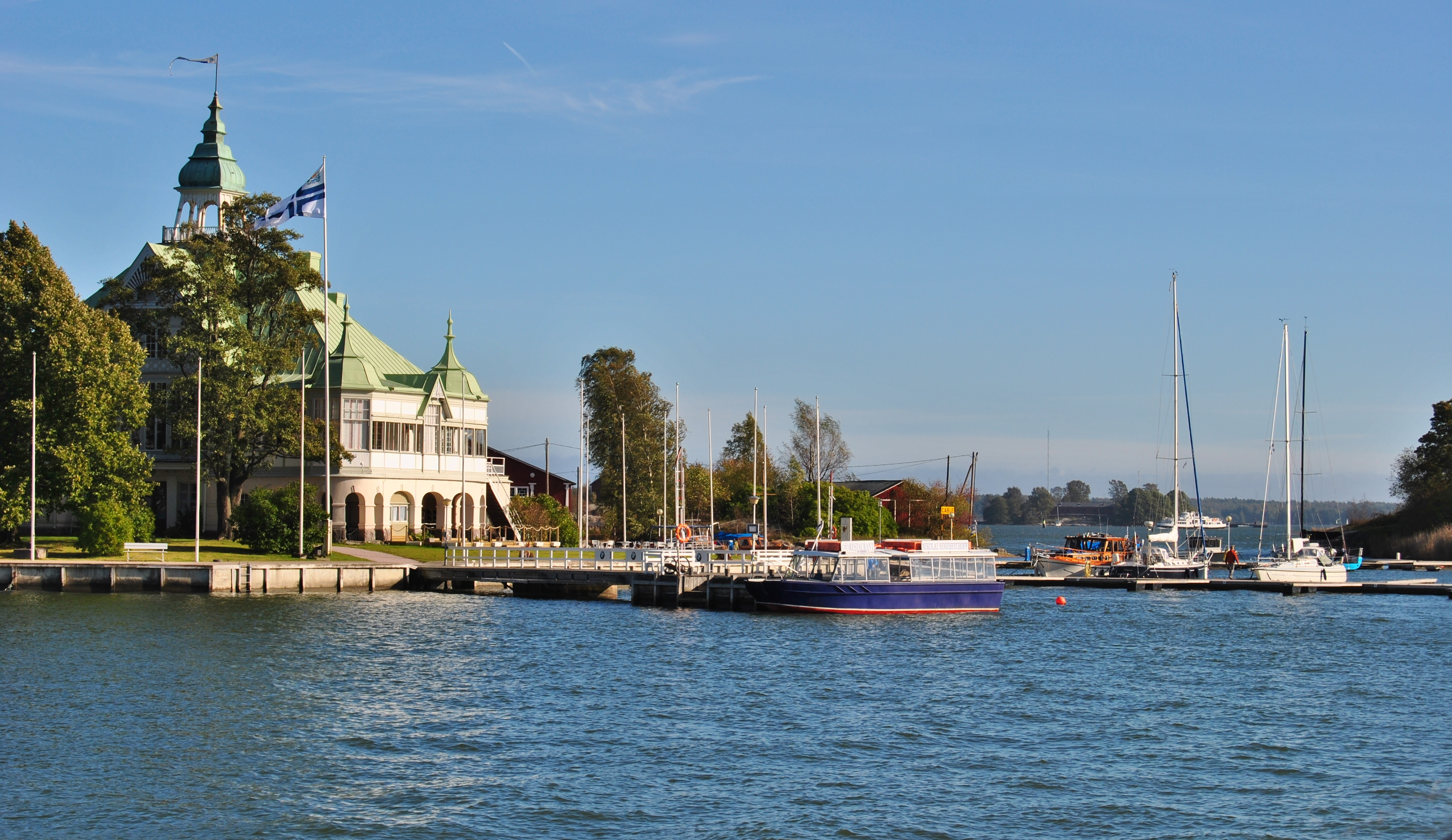 Nyländska Jaktklubben at Valkosaari island